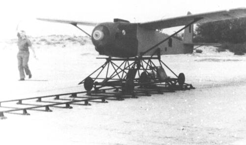 General Motors A-1